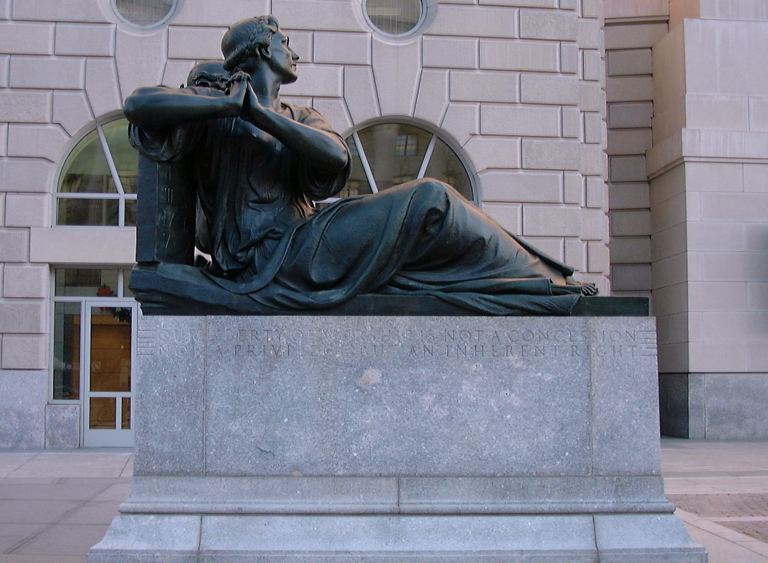 This bronze figure, entitled "Justice," is one of the three parts of the Oscar Straus Memorial. Between this and its companion figure, "Reason" is a fountain. Our liberty of worship is not a concession nor a privilege, but an inherent right.